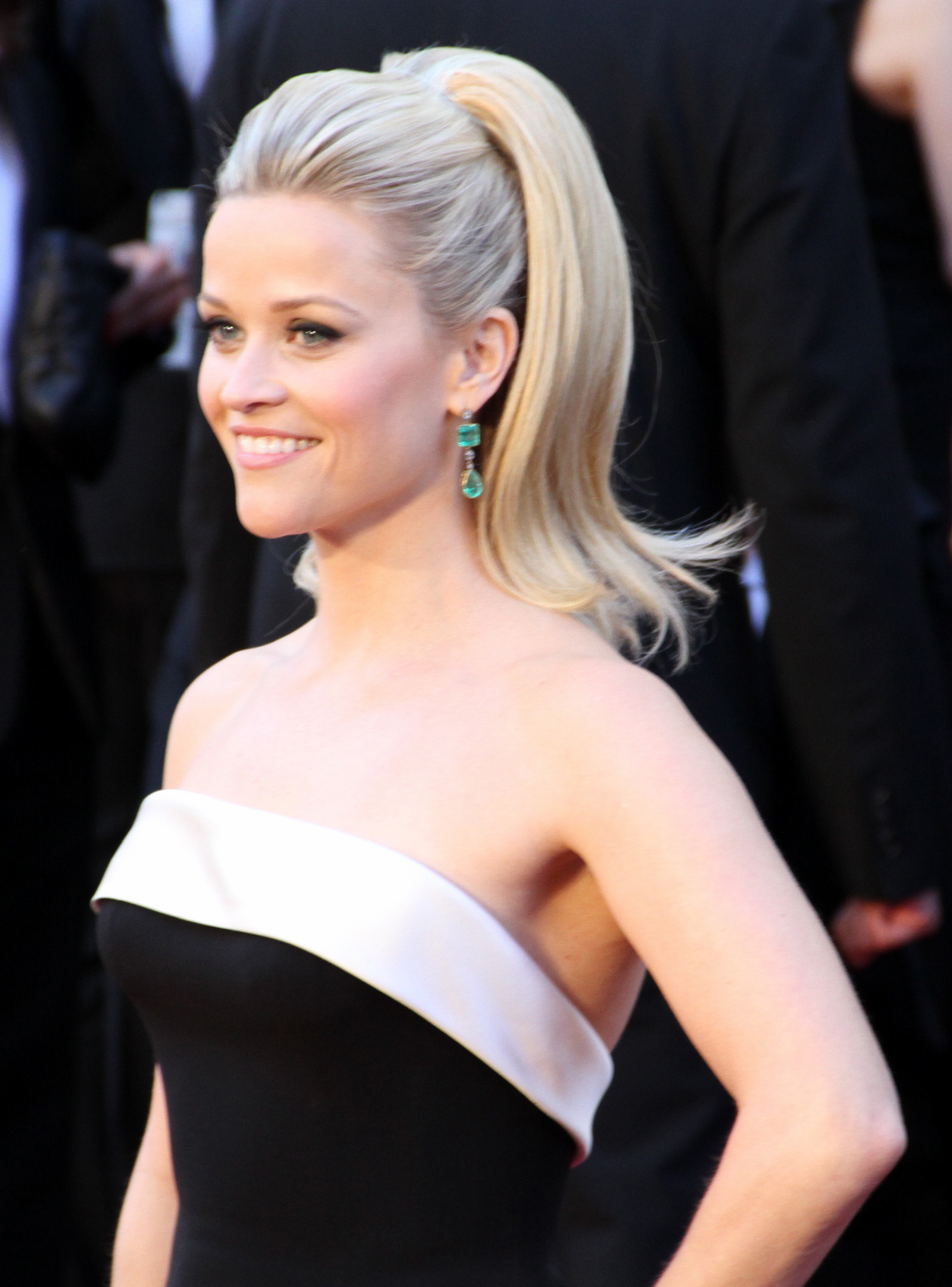 Reese Witherspoon at the 83rd Academy Awards